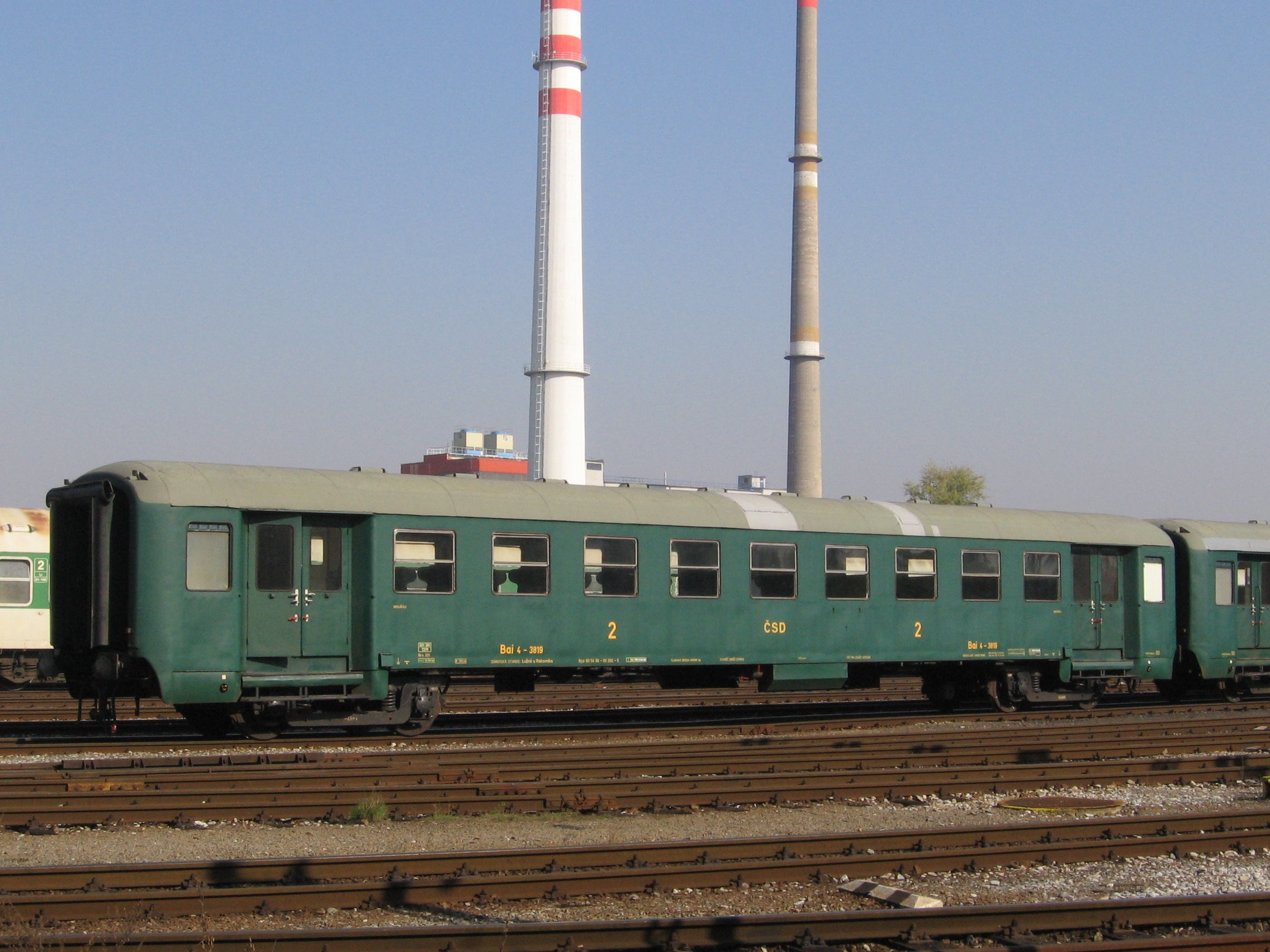 ČSD coach class Bai (8-door) in Prague-ONJ